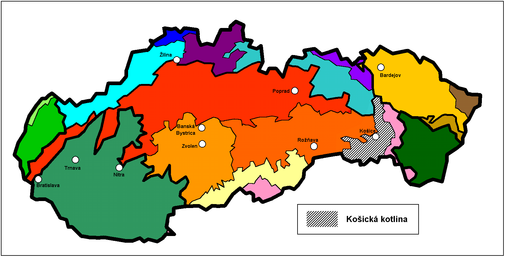 Map of Kosicka kotlina in Slovakia